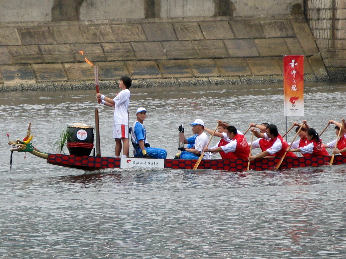 HK Olympic Torch Relay Toach Relay in Shing Mun River Channel